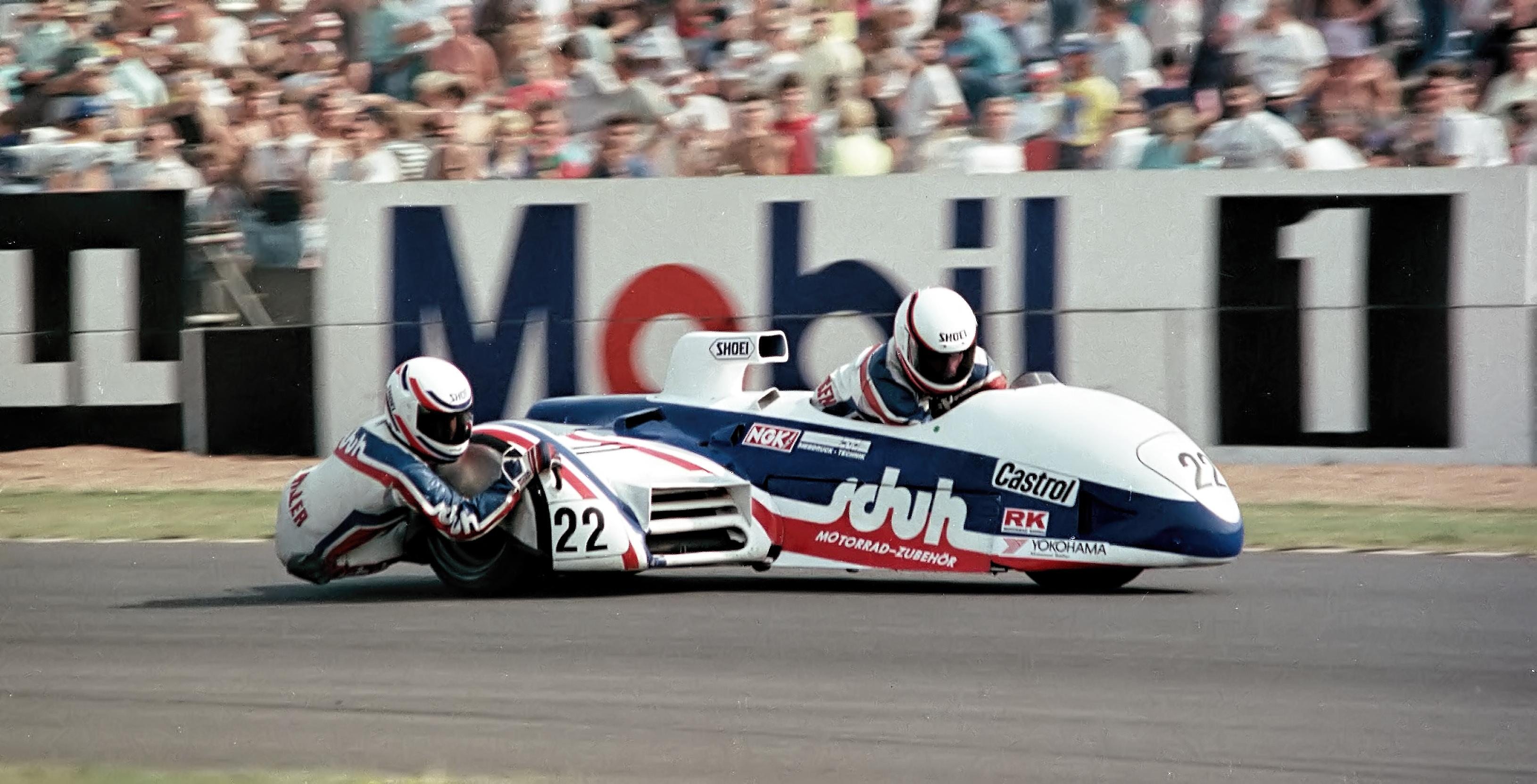 The Schuh Special Sidecar, ridden by Rolf Steinhausen and Bruno Hiller at the 1989 British Grand Prix.